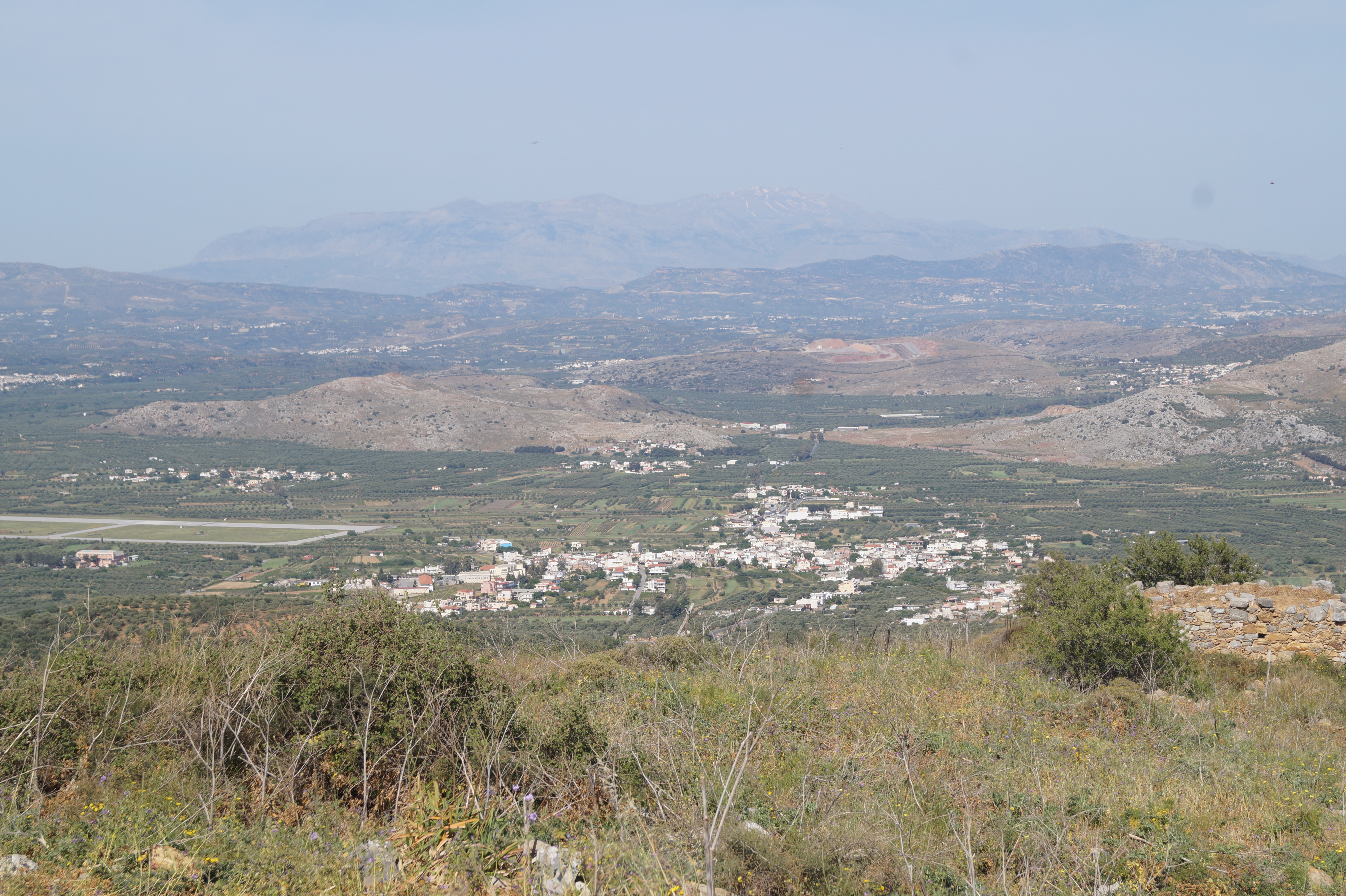 Lyttos, Crete, Greece: View from the acropolis of Lyttos to the west on the city of Kastelli.